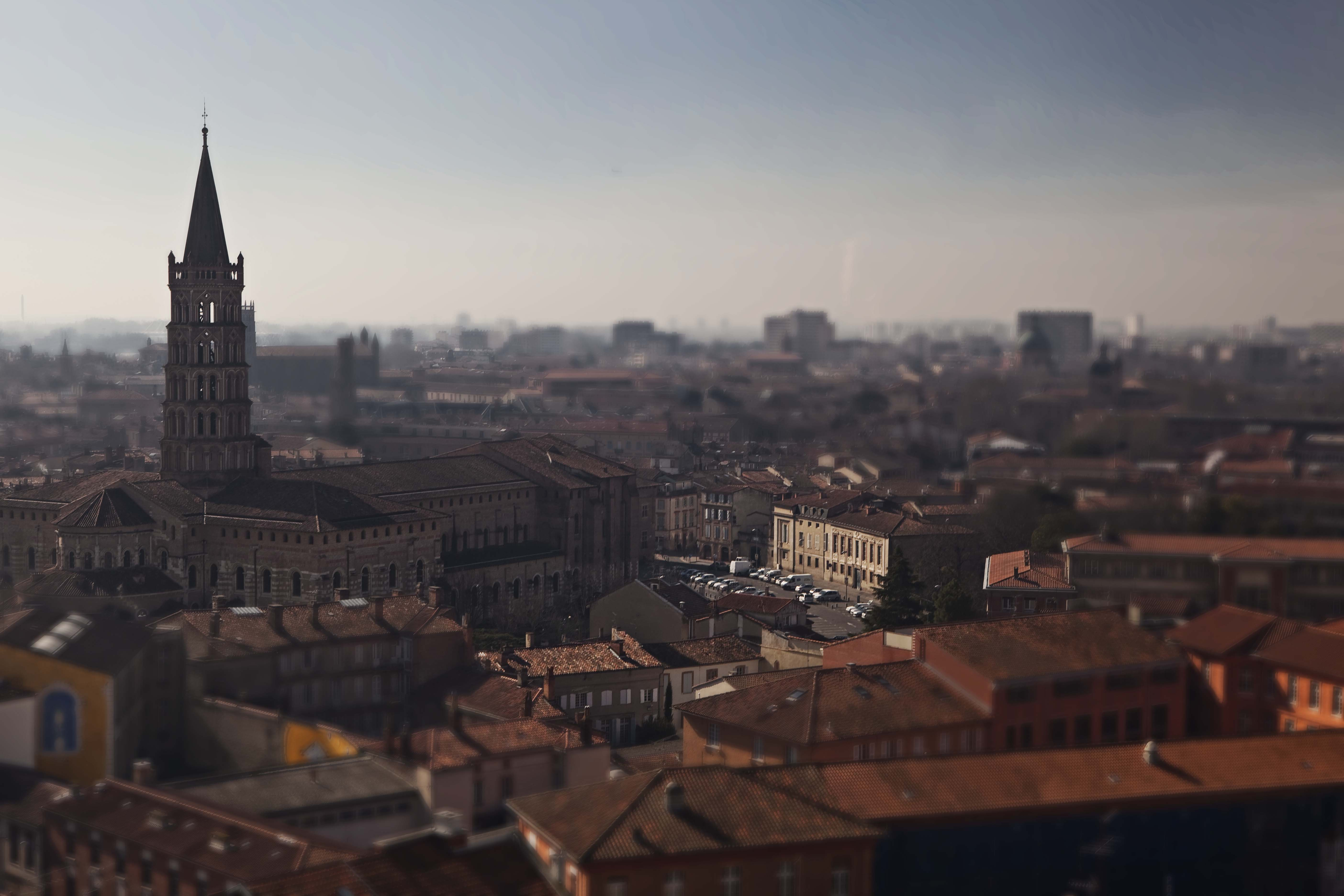 St Sernin's basilica and the roofs of Toulouse from Boulevard d'Arcole